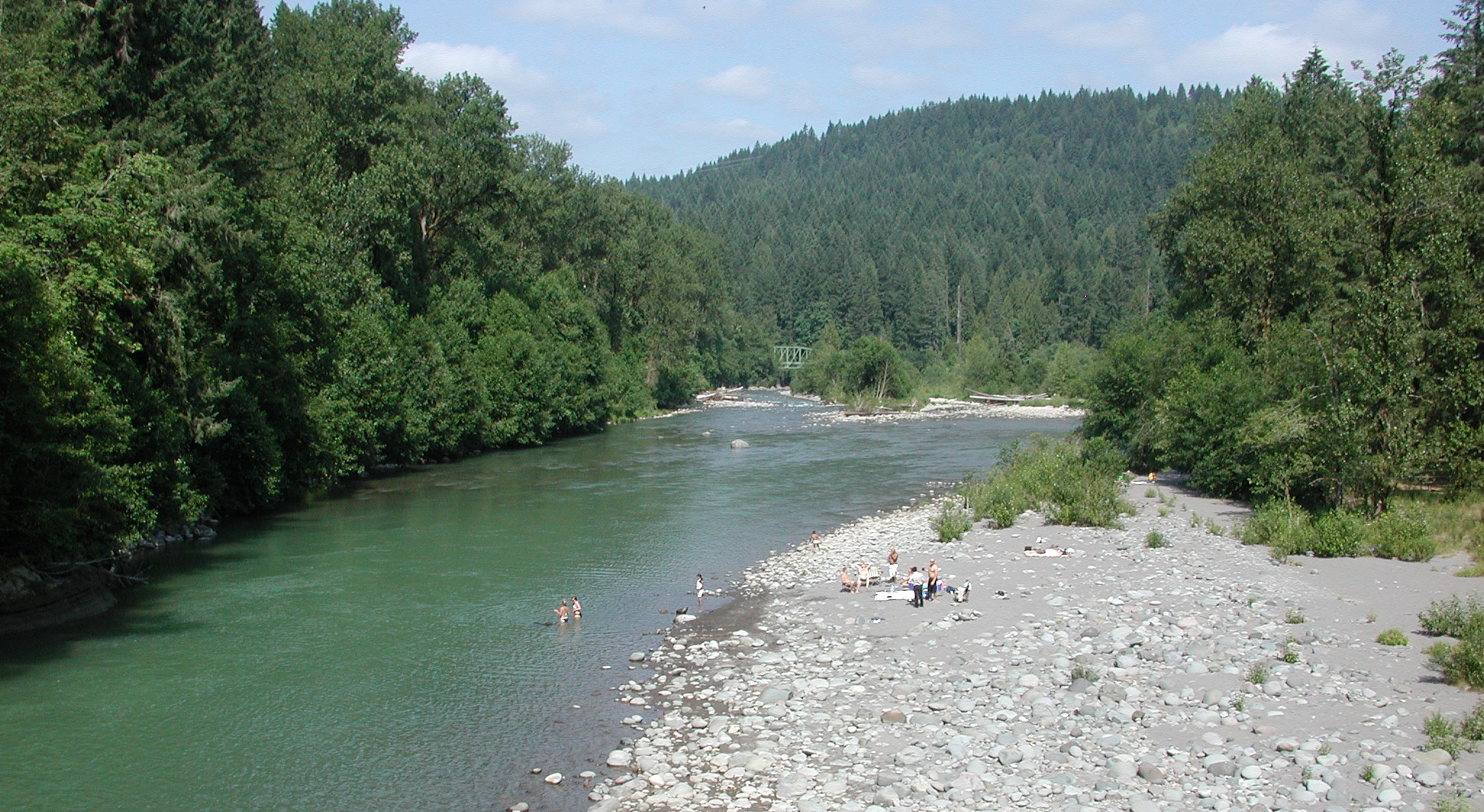 Swimmers and sunbathers at Dodge Park on the Sandy River in Oregon, United States. View is downstream (north). The Bull Run River, not visible, enters the Sandy River from the right not far below the park.